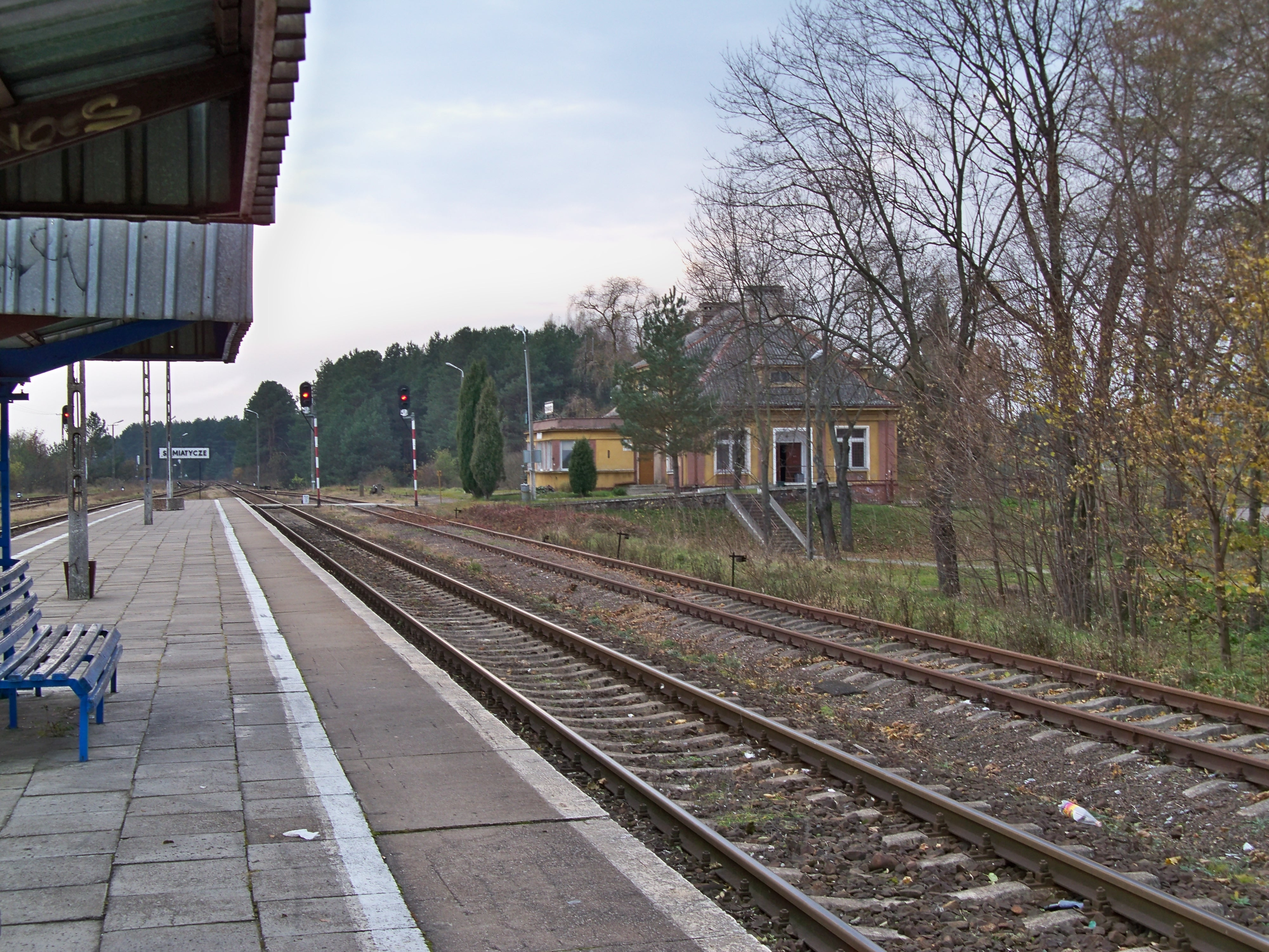 Railway station Siemiatycze-Stacja in Poland.